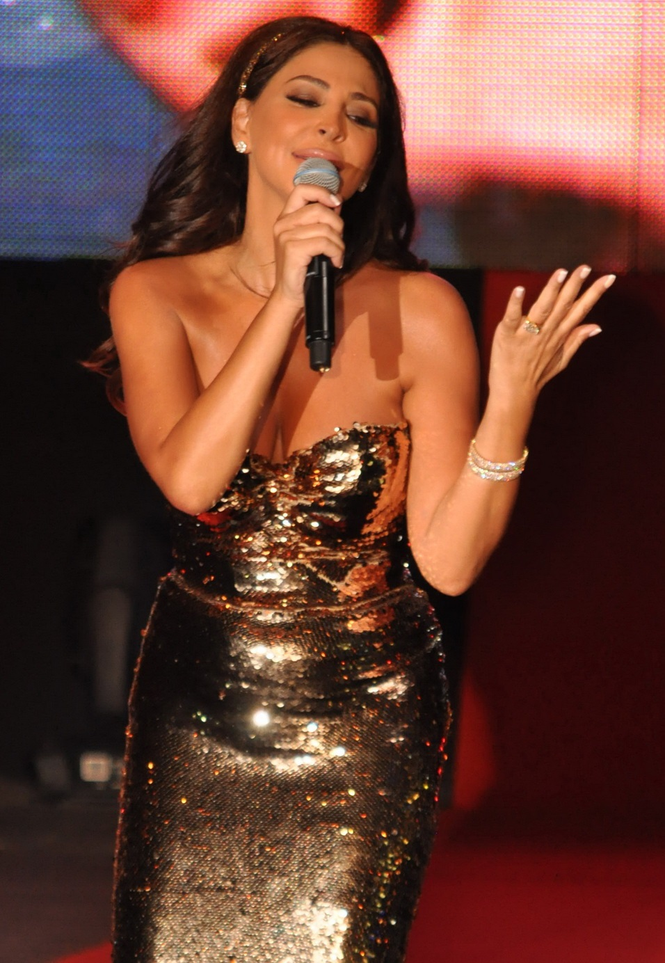 Elissa - August 24, 2012 (3)